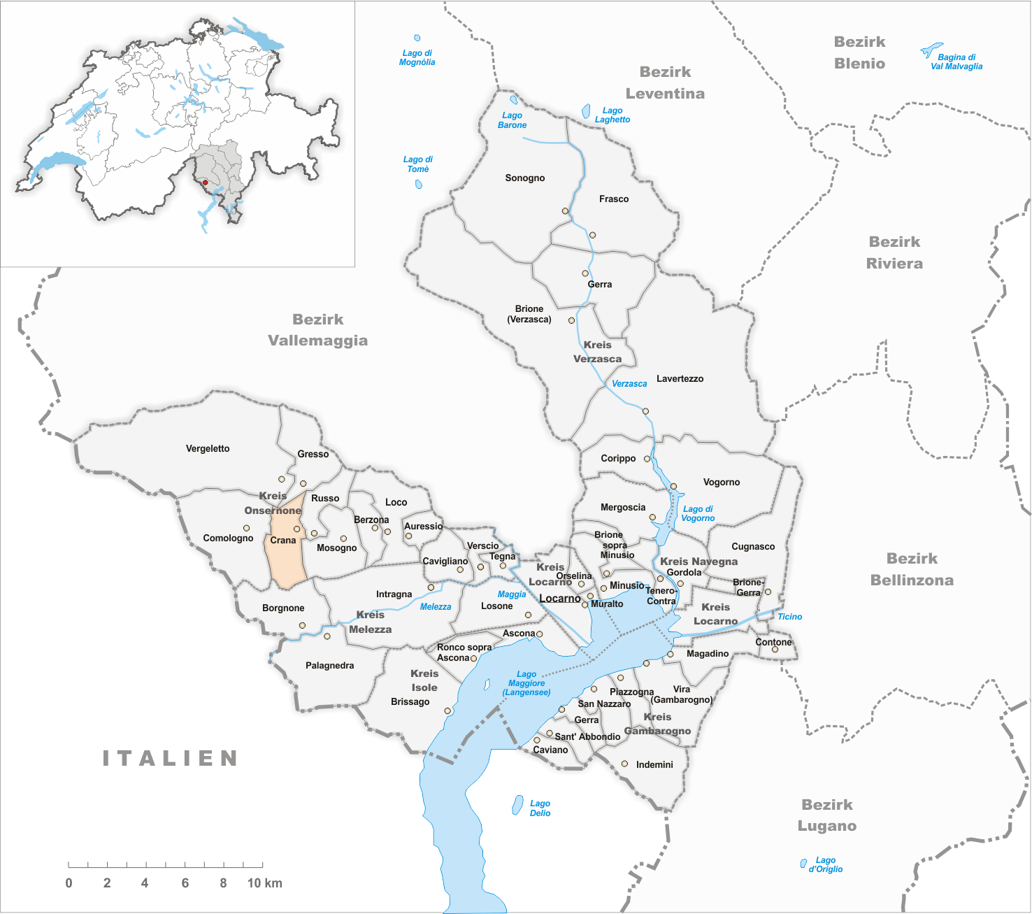 Municipality Crana